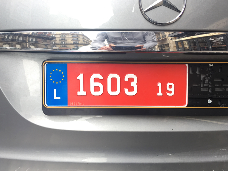 This photo, made in Paris, represents a dealer Luxembourg rear license plate used for test drives. The small number is validity year (19=2019)